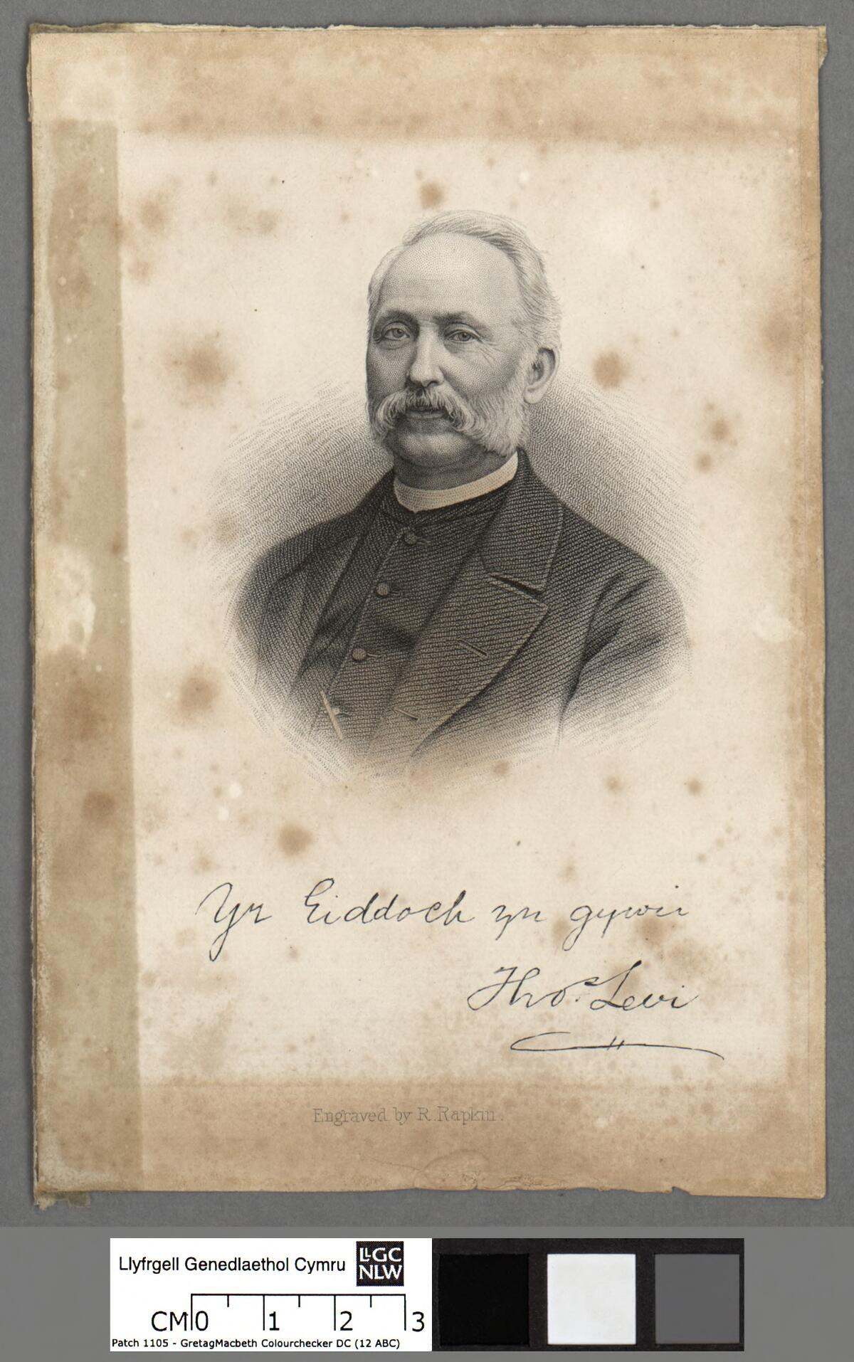 A portrait from the Welsh Portrait Collection at the National Library of Wales. Depicted person: Thomas Levi – Welsh Calvinistic Methodist minister